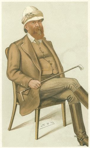 Caricature of Major-General Sir Peter Stark Lumsden GCB. CSI. (1829-1918). Caption read "Afghan frontier".